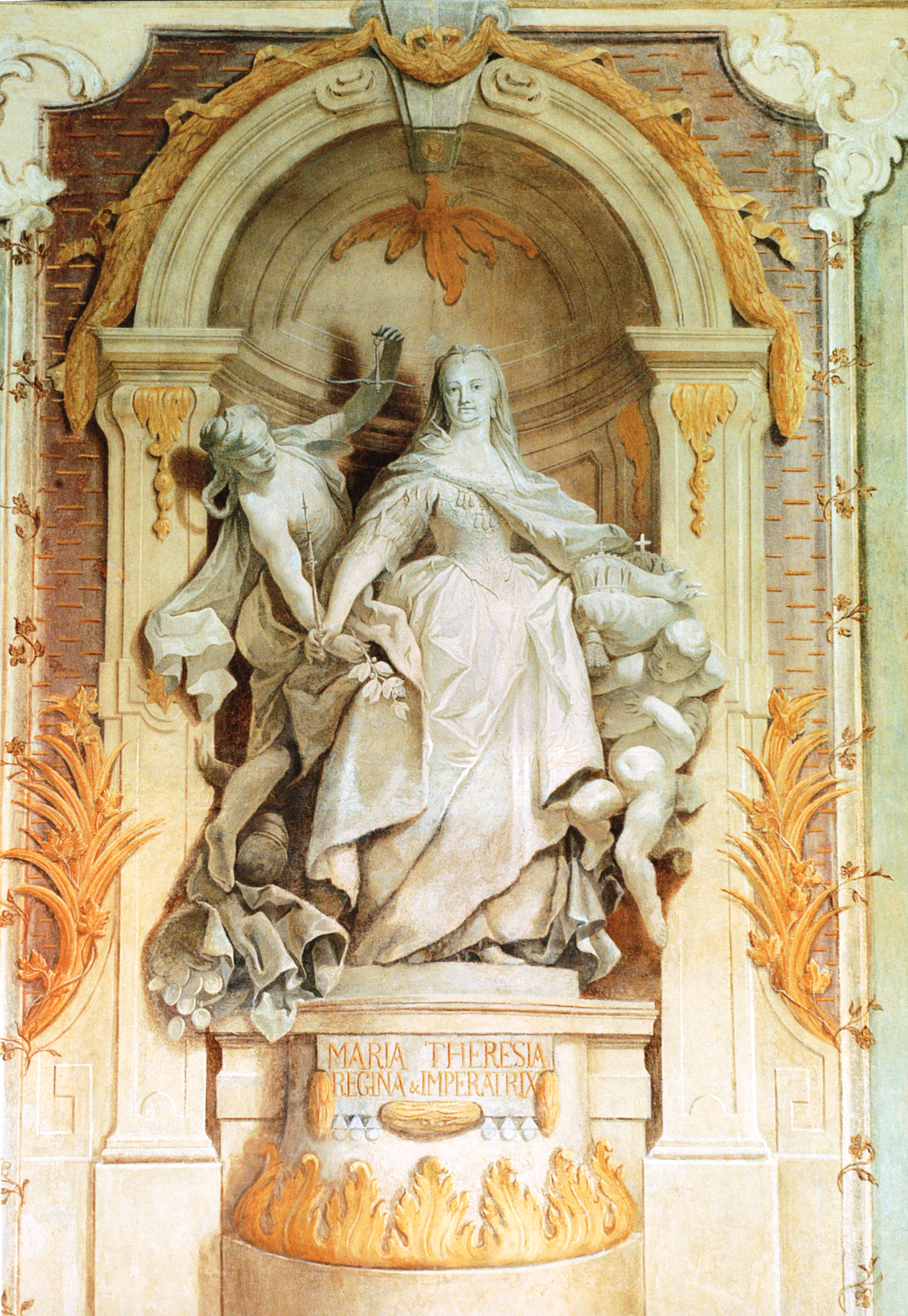 Empress Maria Theresia